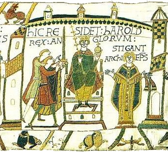 HIC RESIDET HAROLD REX ANGLORUM. STIGANT ARCHIEP(I)S(COPUS). "Here sits Harold King of the English. Archbishop Stigand". Scene immediately after crowning by Archibishop of Canterbury Stigand (d.1072) of King Harold, contrary to the latter's oath given at Bayeux to William Duke of Normandy to be his vassal. (see earlier scene of Harold's oath depicted on Bayeux Tapestry)